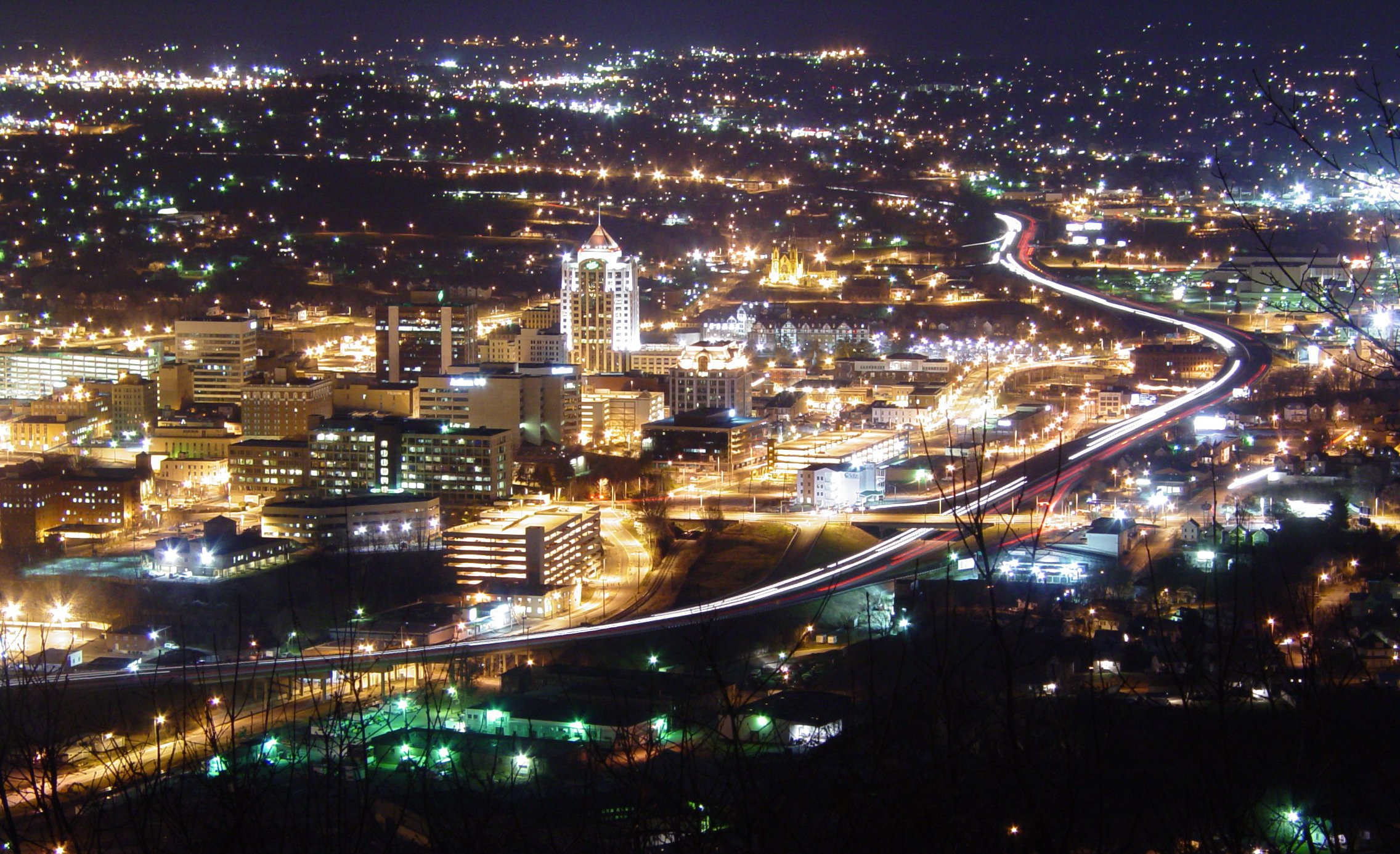 Roanoke, Virginia as seen at night from the Mill Mountain Star. Photo by Ben Schumin on March 14, 2003.